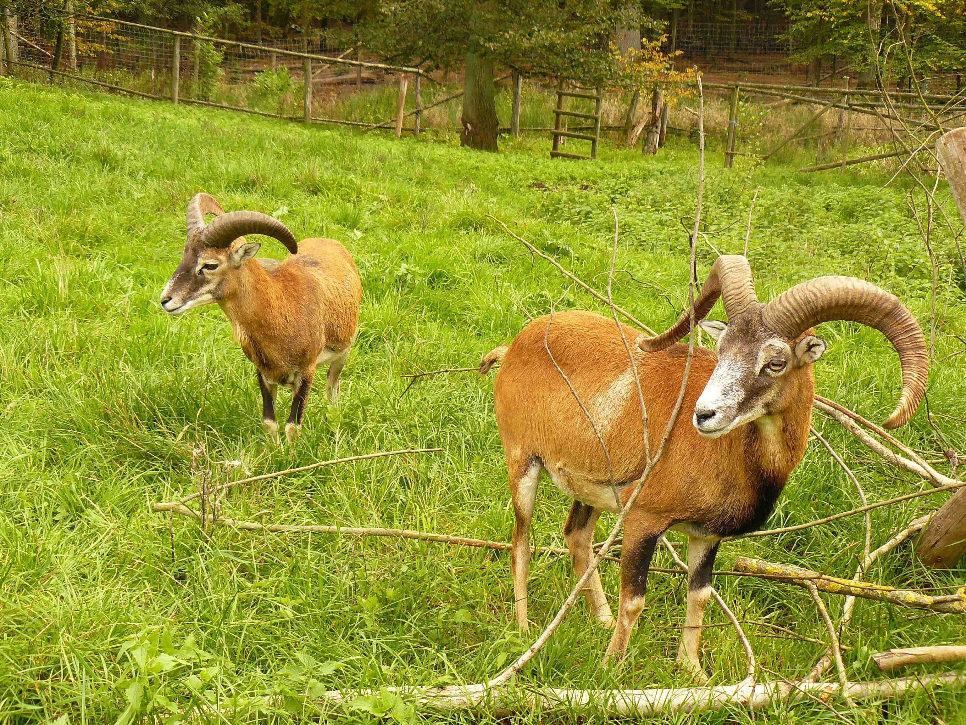 Mouflon rams (Ovis orientalis) in the Wildpark Tambach (Germany)